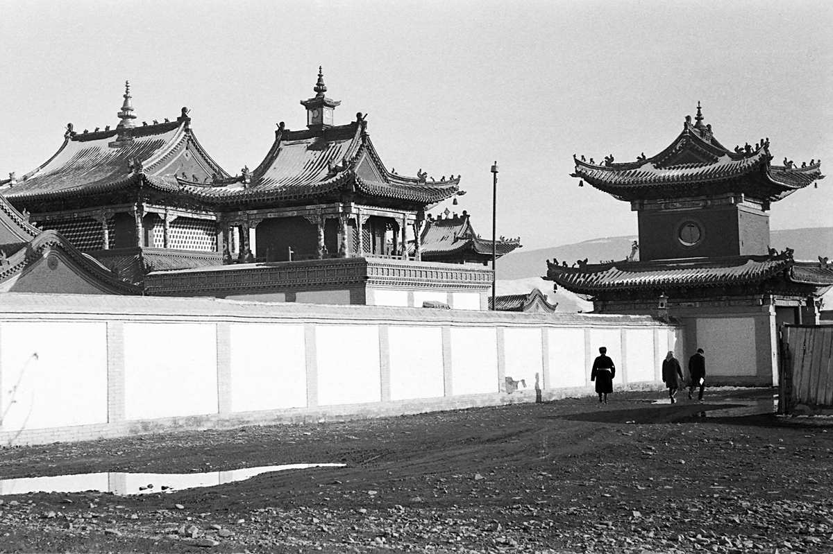 Choijin Lama Monastery (museum). Ulan Bator, Mongolia (1972)